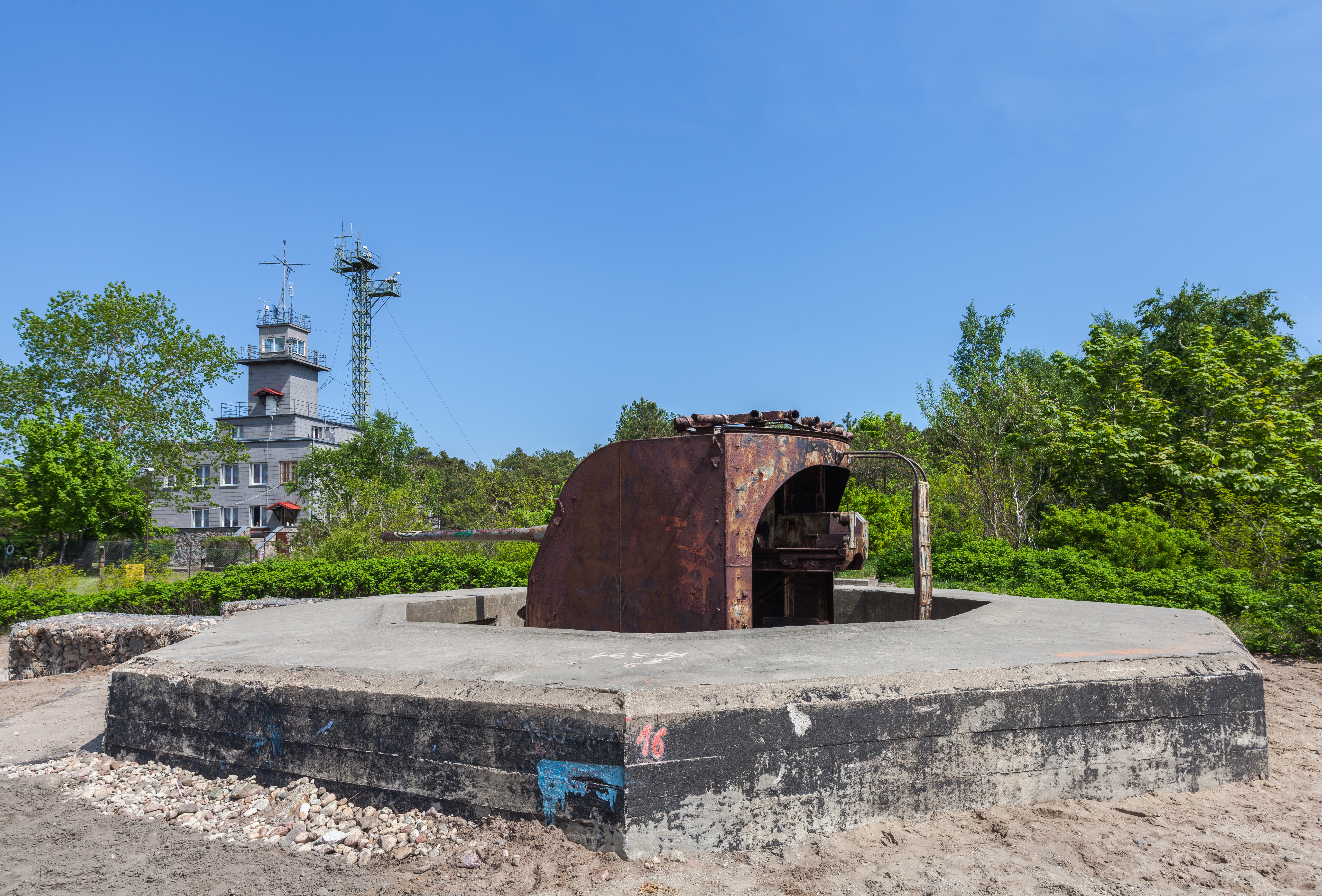 cannon, Hel, Poland